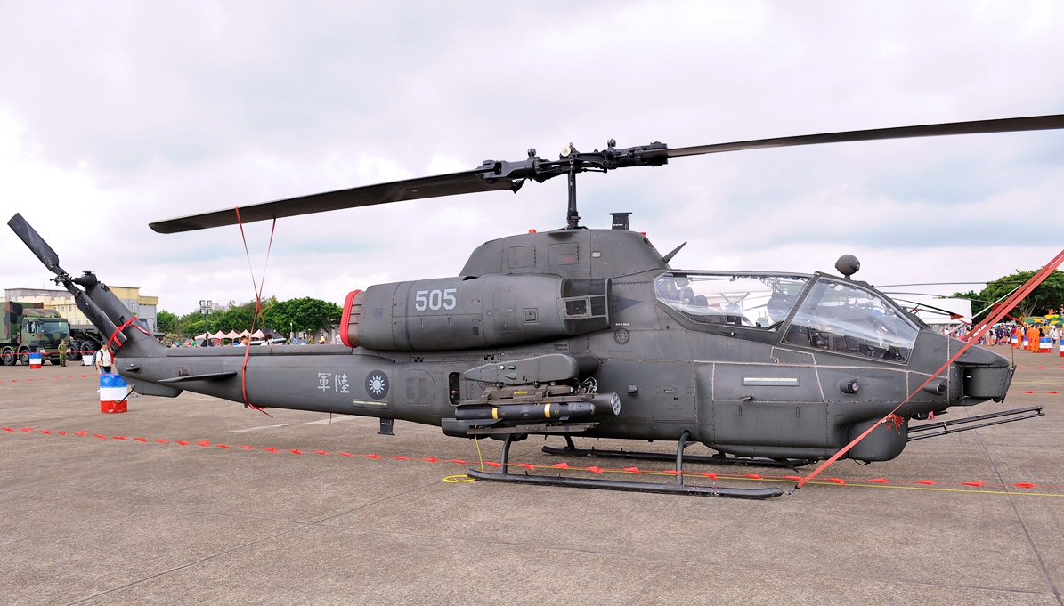 Republic of China Army Bell AH-1W Super Cobra (209)